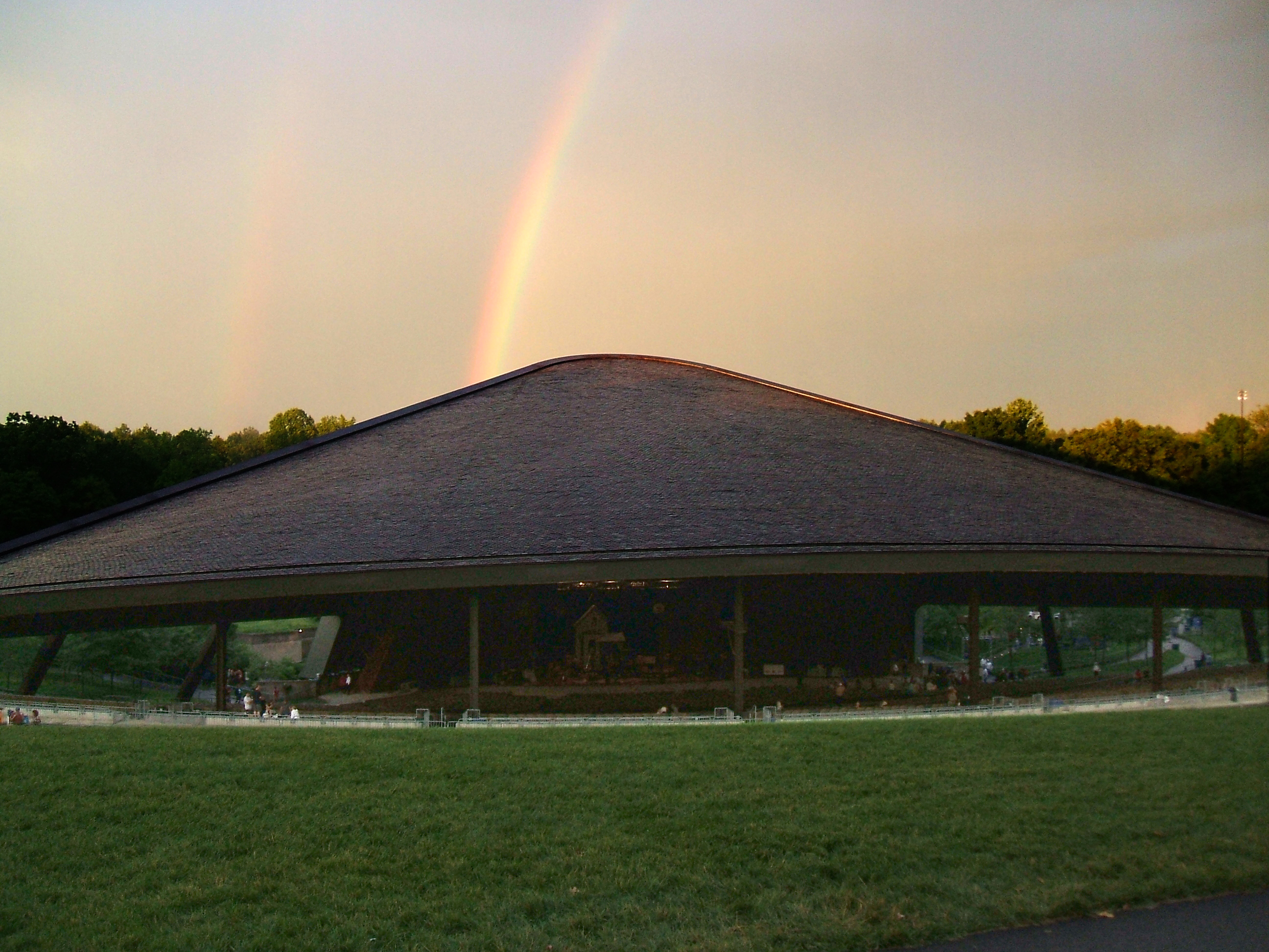 Blossom Music Center in Cuyahoga Falls, Ohio. There's ALMOST a triple rainbow in the background